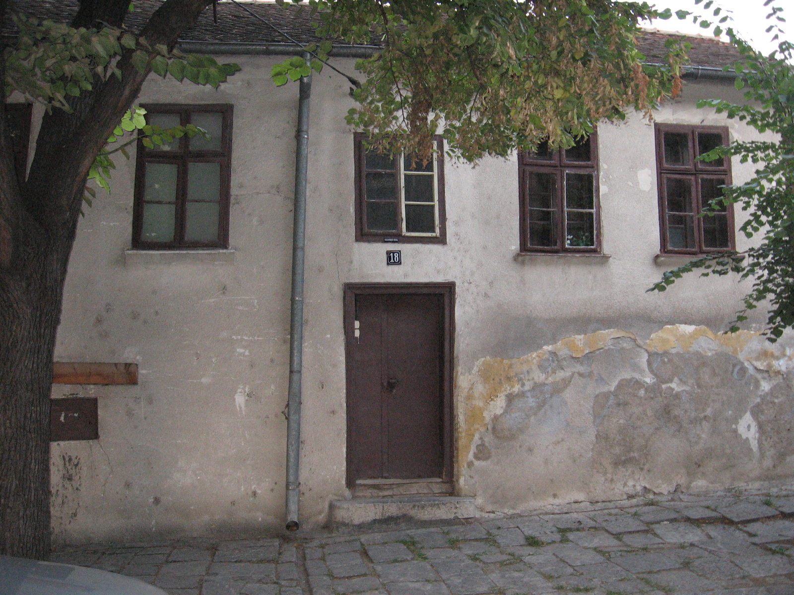 Old house in Kosančićev Venac